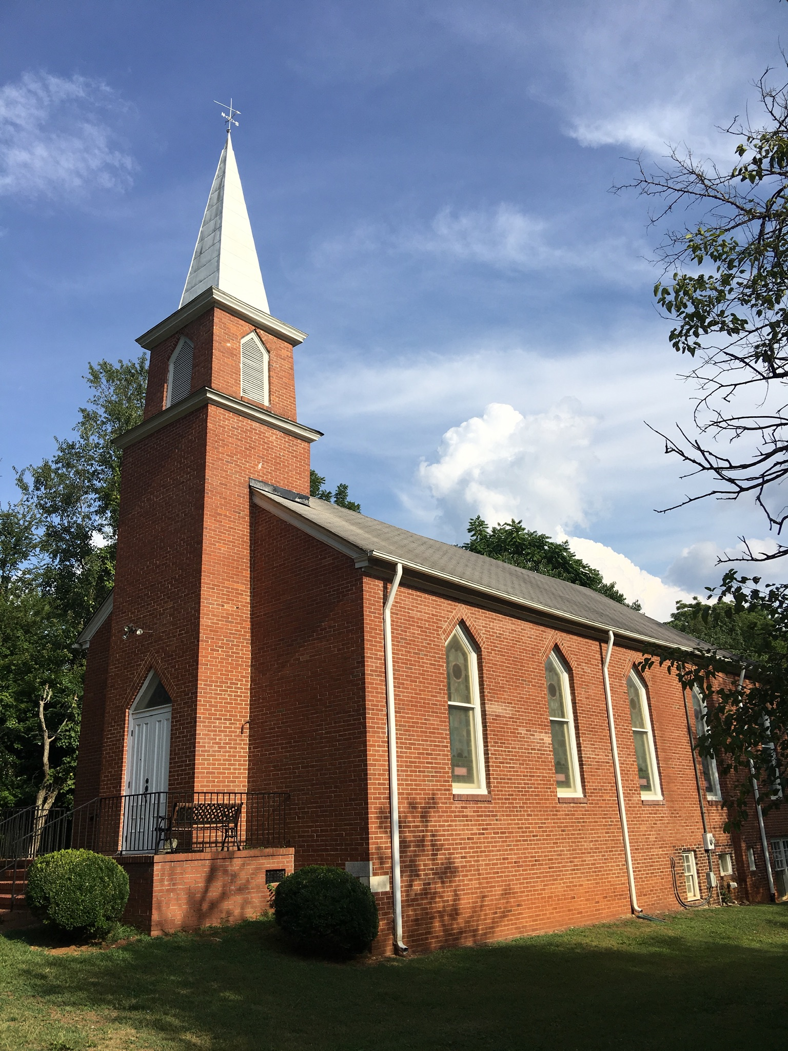 Historic African Methodist Episcopal chapel in Hillsborough, NC that formerly served as a courthouse, school, and Baptist church.